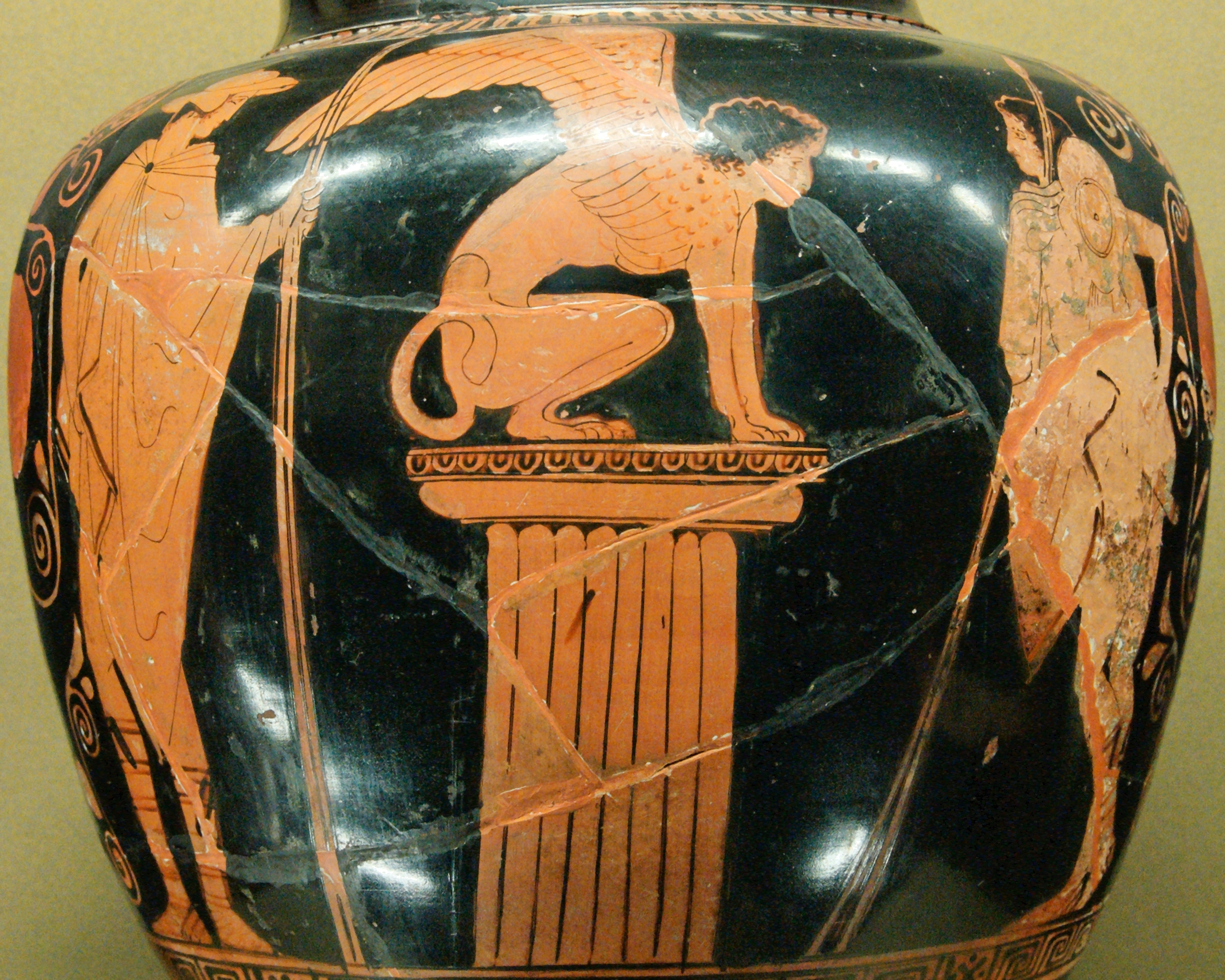 Oedipus (on the right), the Sphinx (on the middle) and Hermes (on the left). Attic red-figure stamnos, ca. 440 BC.